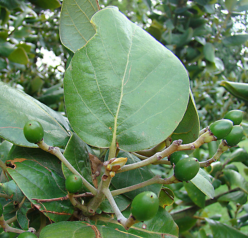 Immature fruit of the Lingue tree, found in central and southern Chile. In context at